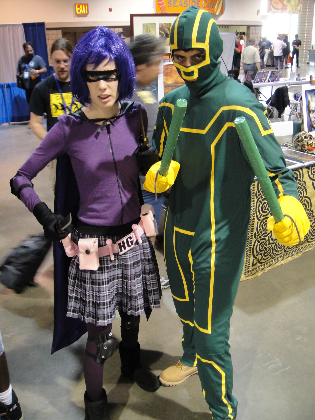 Hit Girl and Kick-Ass